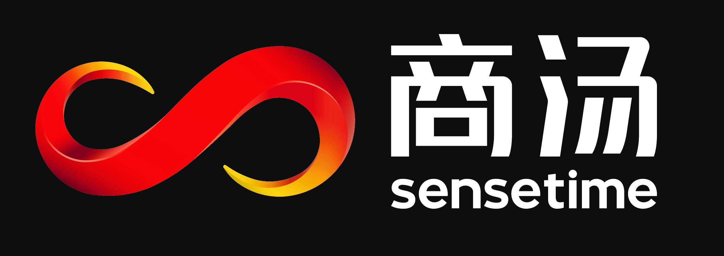 SenseTime Logo